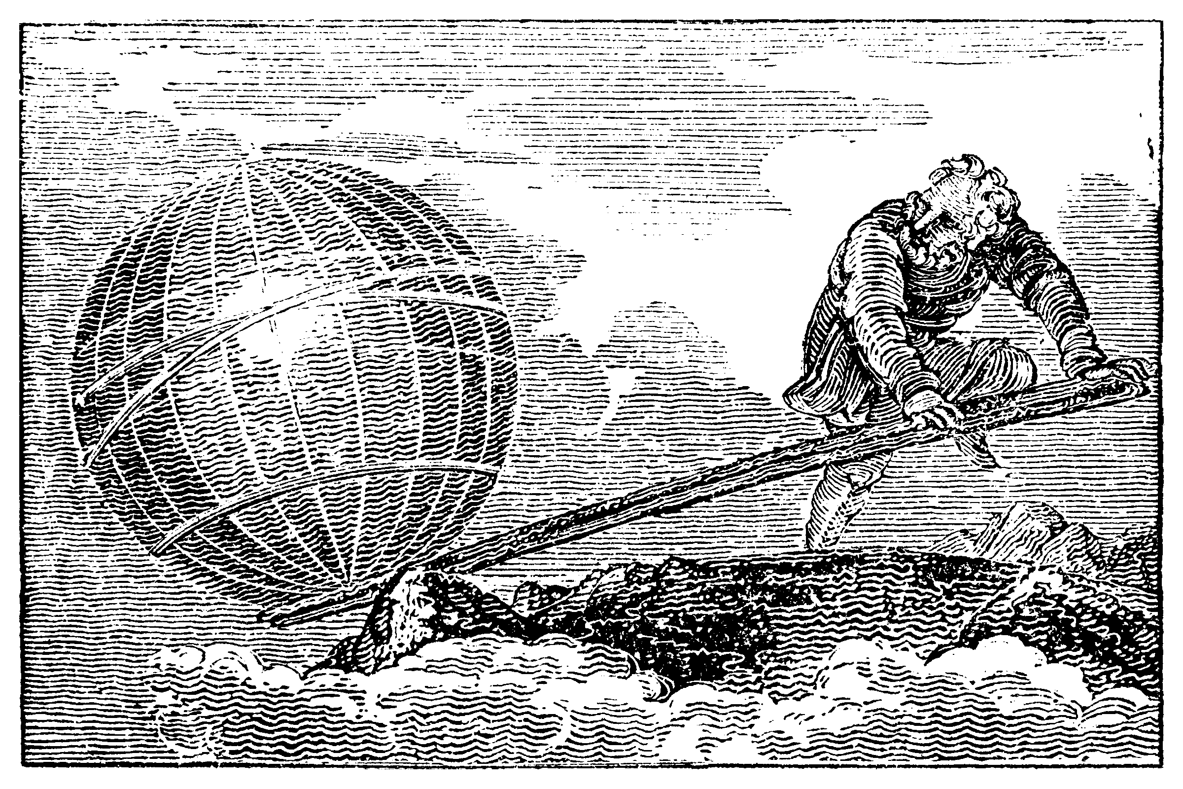 Illustration to Archimedes remark “Δοσ μοι που στω και κινω την γην”, as quoted by Pappus of Alexandria in Collection or Synagoge, Book VIII, c. AD 340. Greek text in Pappi Alexandrini Collectionis edited by Friedrich Otto Hultsch, Berlin, 1878, page 1060. Often translated into English as “Give me a place to stand on, and I will move the earth” (Dikshoorn 1987) or “Give me but one firm spot on which to stand, and I will move the earth” (Oxford Dictionary of Quotations, 1953)